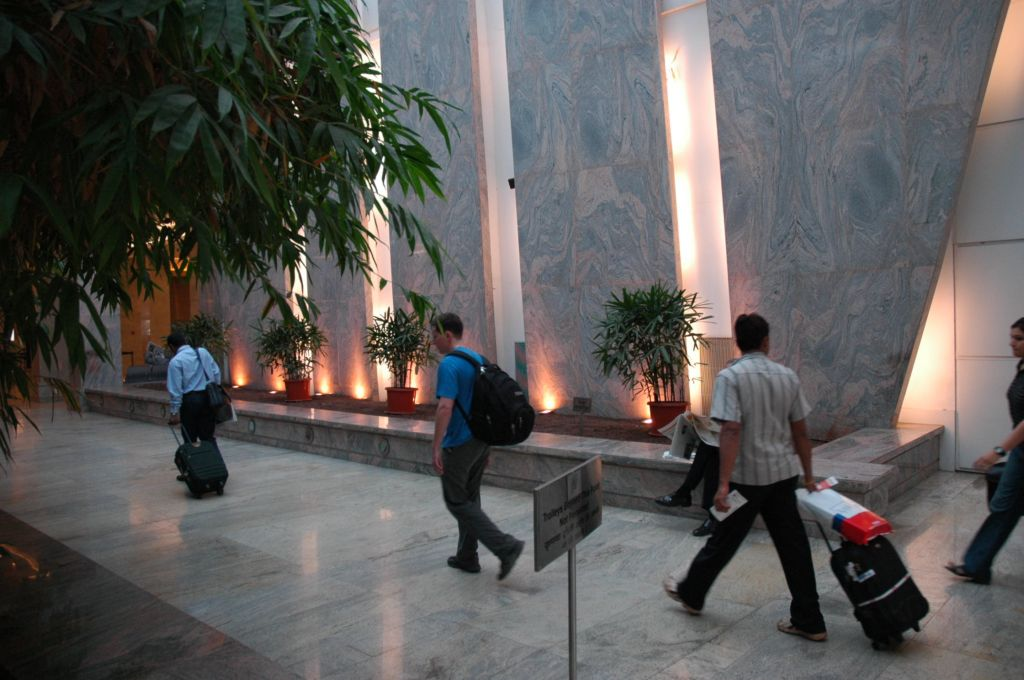 Airport in Mumbai